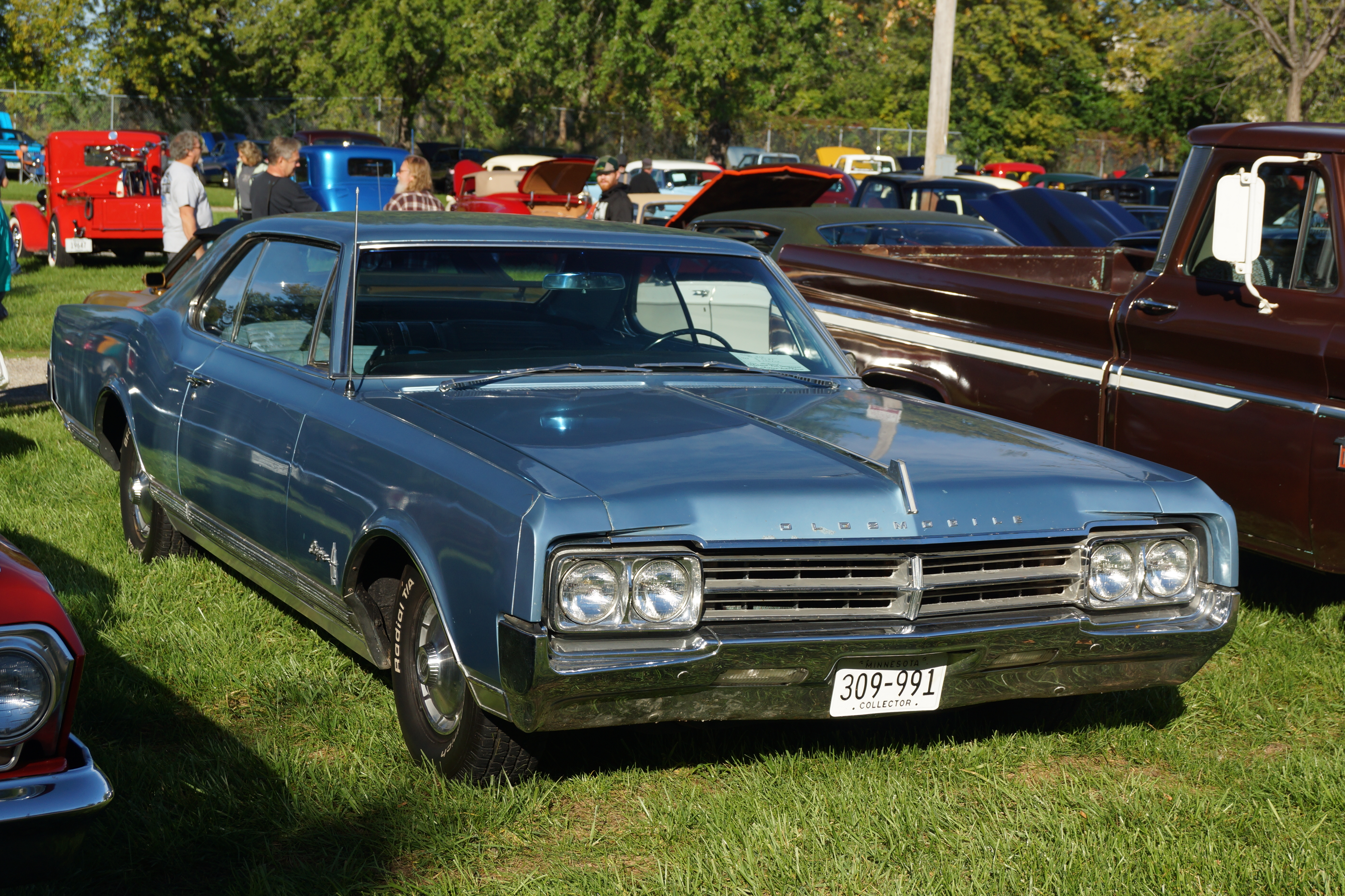 46th Annual Midwest Fall Swapmeet & Car Show Sponsored by the Capitol City Chapter of the AACA and the Twin Cities Model "A" Ford Club Minnesota State Fairgrounds St. Paul, Minnesota October 2016 Click here for more car pictures at my Flickr site.